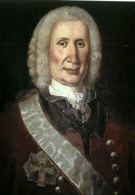 Portrait of Henrik Jørgen Huitfeldt (1674-1751), Dano-Norwegian General